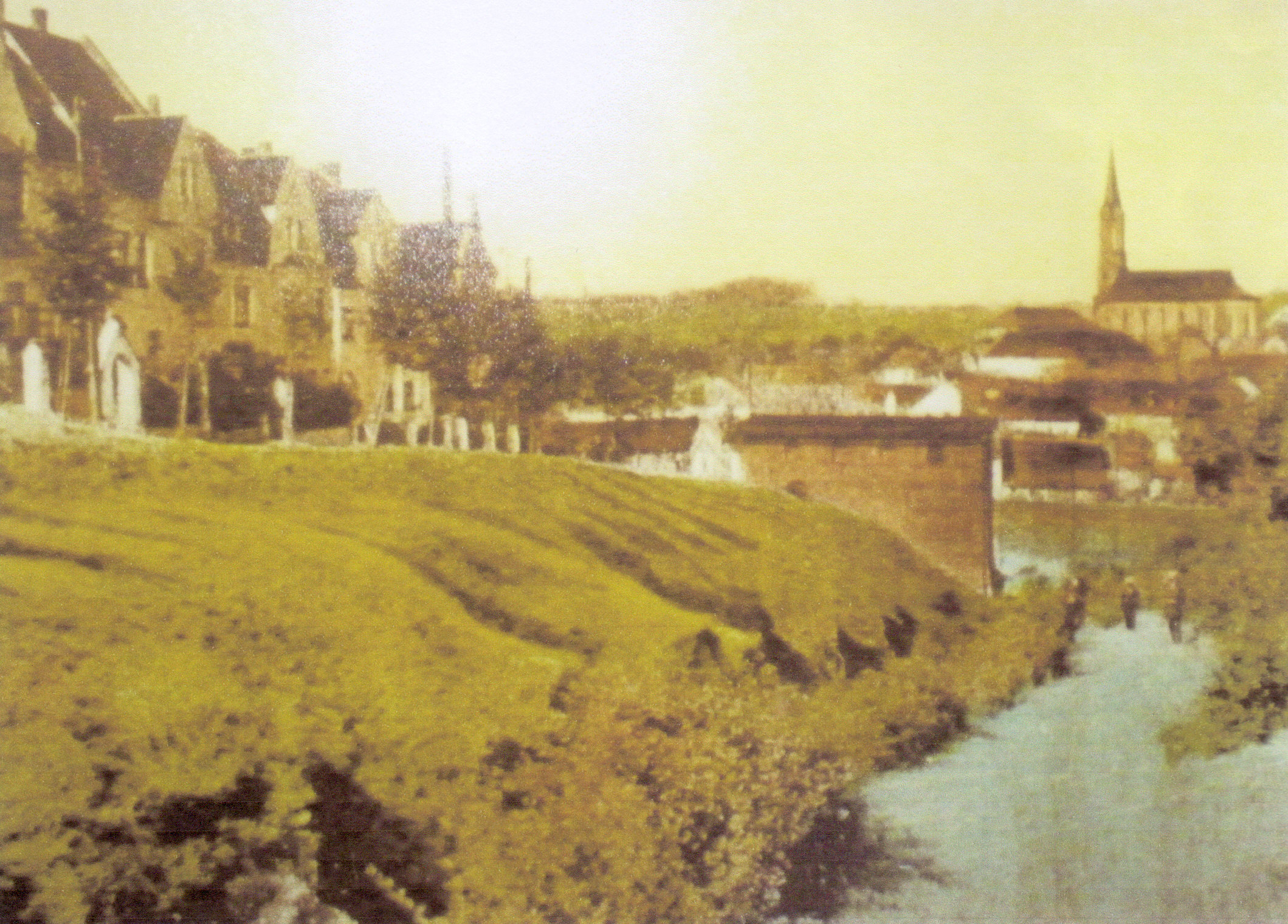 The Kreuzberghohlweg in Münchberg about 1893